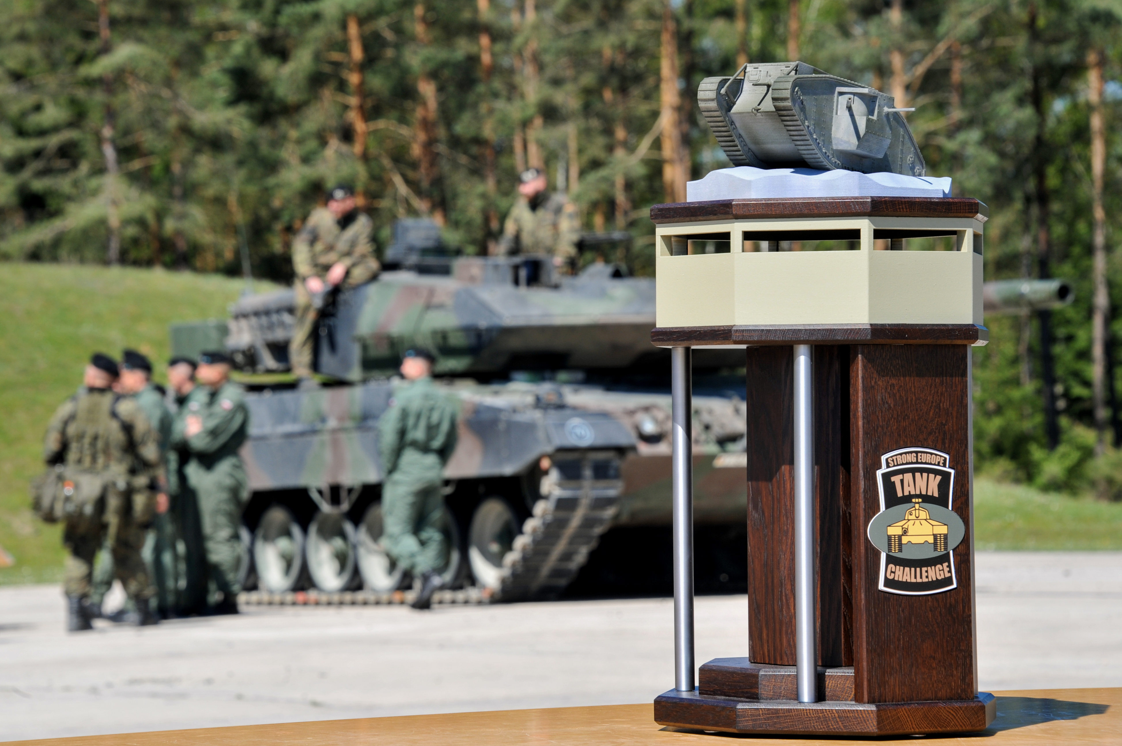 Picture shows the trophy of the Strong Europe Tank Challenge (SETC), May 08, 2016 at Grafenwoehr Training Area, Germany. The SETC is co-hosted by U.S. Army Europe and the German Bundeswehr May 10-13, 2016. The competition is designed to foster military partnership while promoting NATO interoperability. Seven platoons from six NATO nations are competing in SETC - the first multinational tank challenge at Grafenwoehr in 25 years. For more photos, videos and stories from the Strong Europe Tank Challenge, go to (U.S. Army photo by Visual Information Specialist Markus Rauchenberger/released)